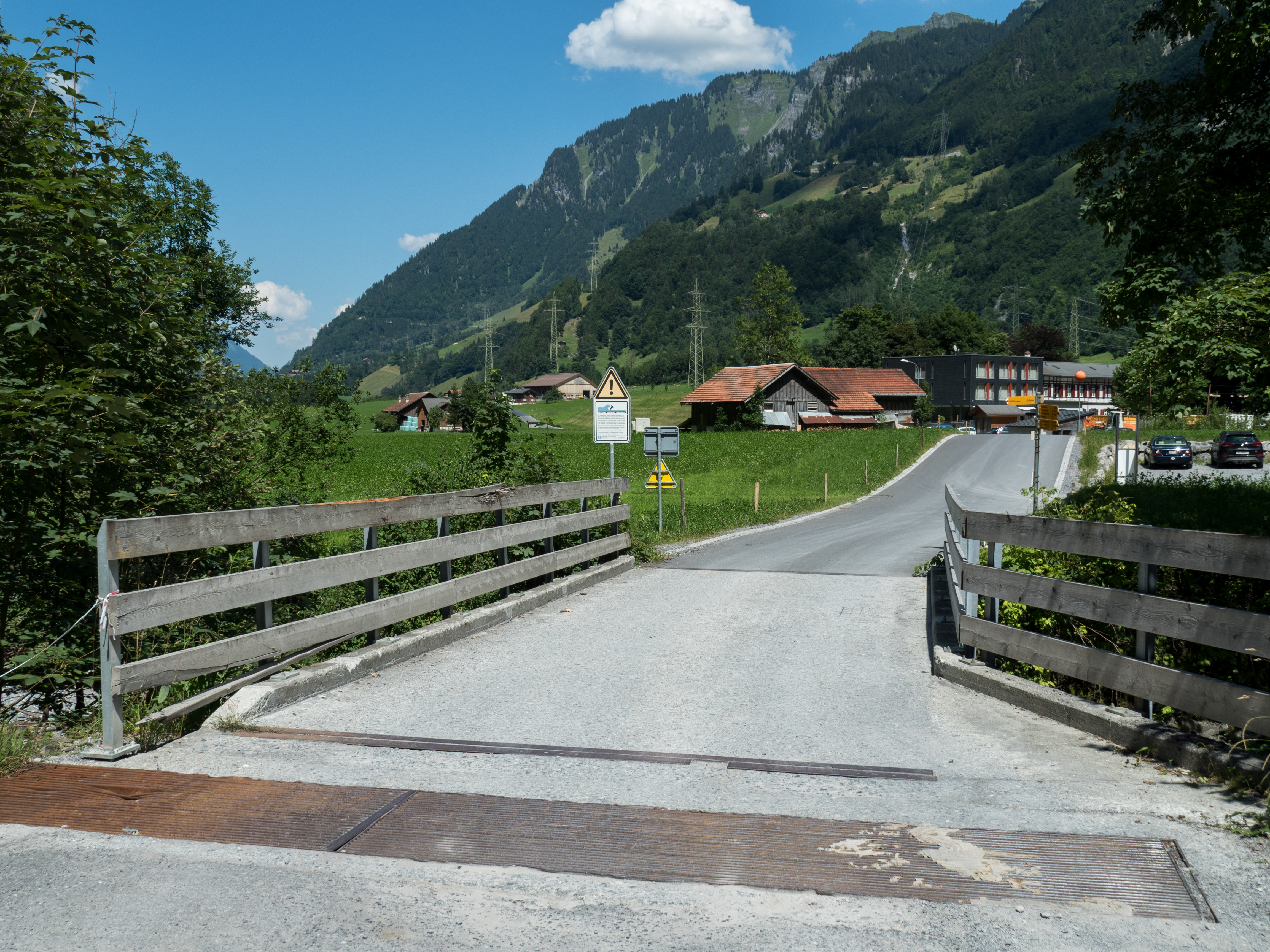 Auenstrasse Road Bridge over the Linth River, Tierfed, Canton of Glarus, Switzerland